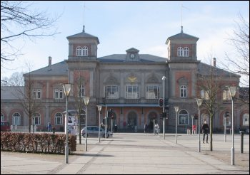 Aalborg train station (Denmark 2004)